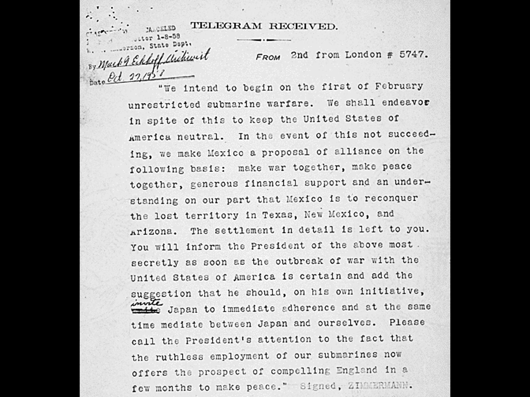 The telegram.